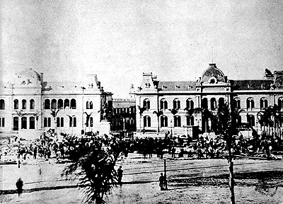 Picture of the "Casa Rosada", the house of the Argentinian government in Buenos Aires, before 1894. This image is in the public domain according to country of origin's law.